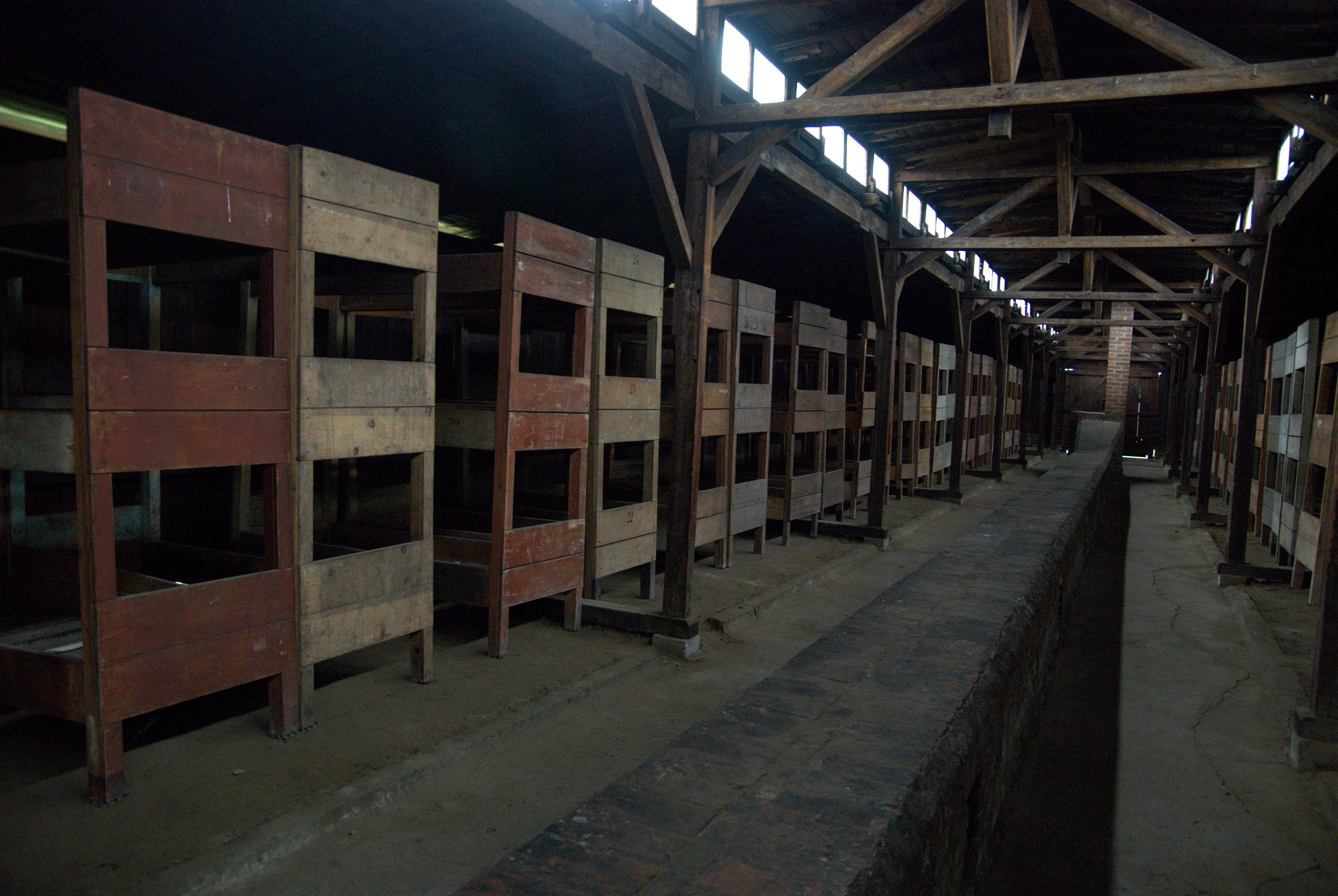 Interior of one of the prisoner buildings in Auschwitz II Birkenau